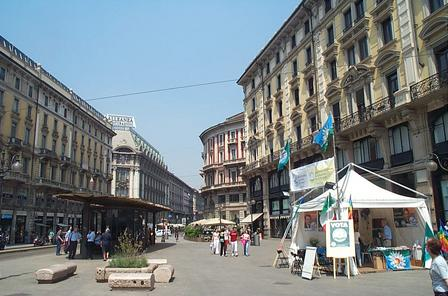 An election campaign stand of Margherita Party (Italy) in Milan, 2004. Copyright © Kaihsu Tai.